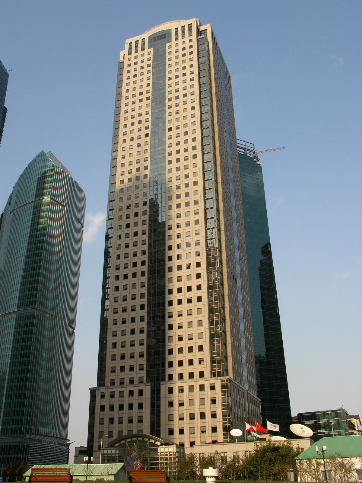 恒生银行大厦 （前称︰汇丰大厦 / 上海森茂国际大厦） Hang Seng Bank Tower (fka: HSBC Tower / Shanghai Sen Mao International Building)